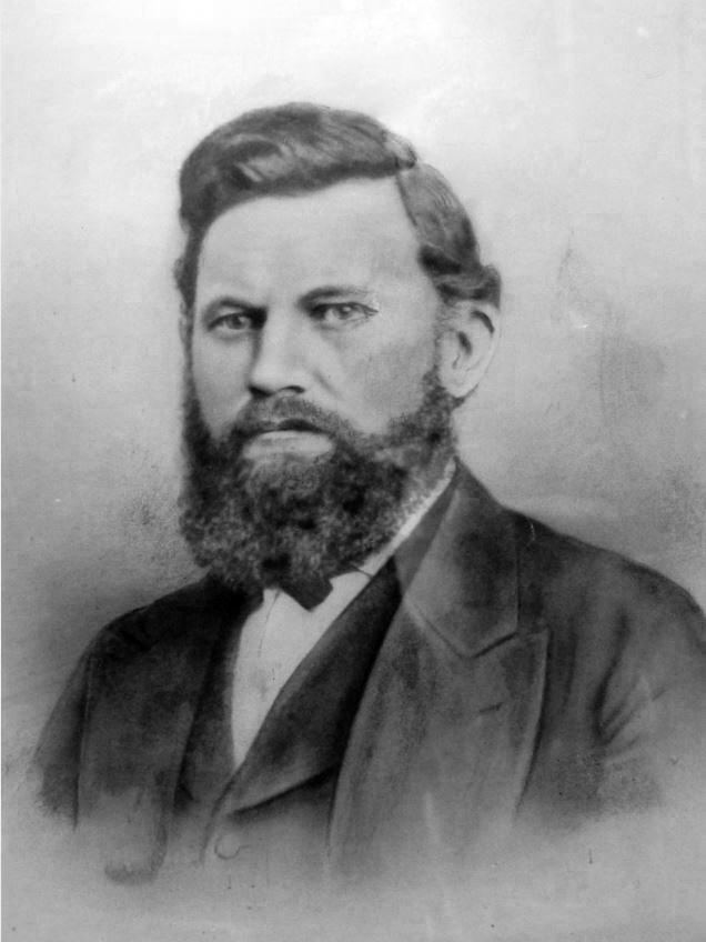 Jesse N. Smith, a Mormon pioneer, church leader, colonizer, politician and frontiersman and first cousin to Joseph Smith, founder of the Latter Day Saint movement.